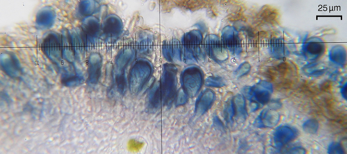 Mokelumne Wilderness, California, 20140628, #6485, 6488, 6489 pers. herb. Relatively common on both species of Letharia.